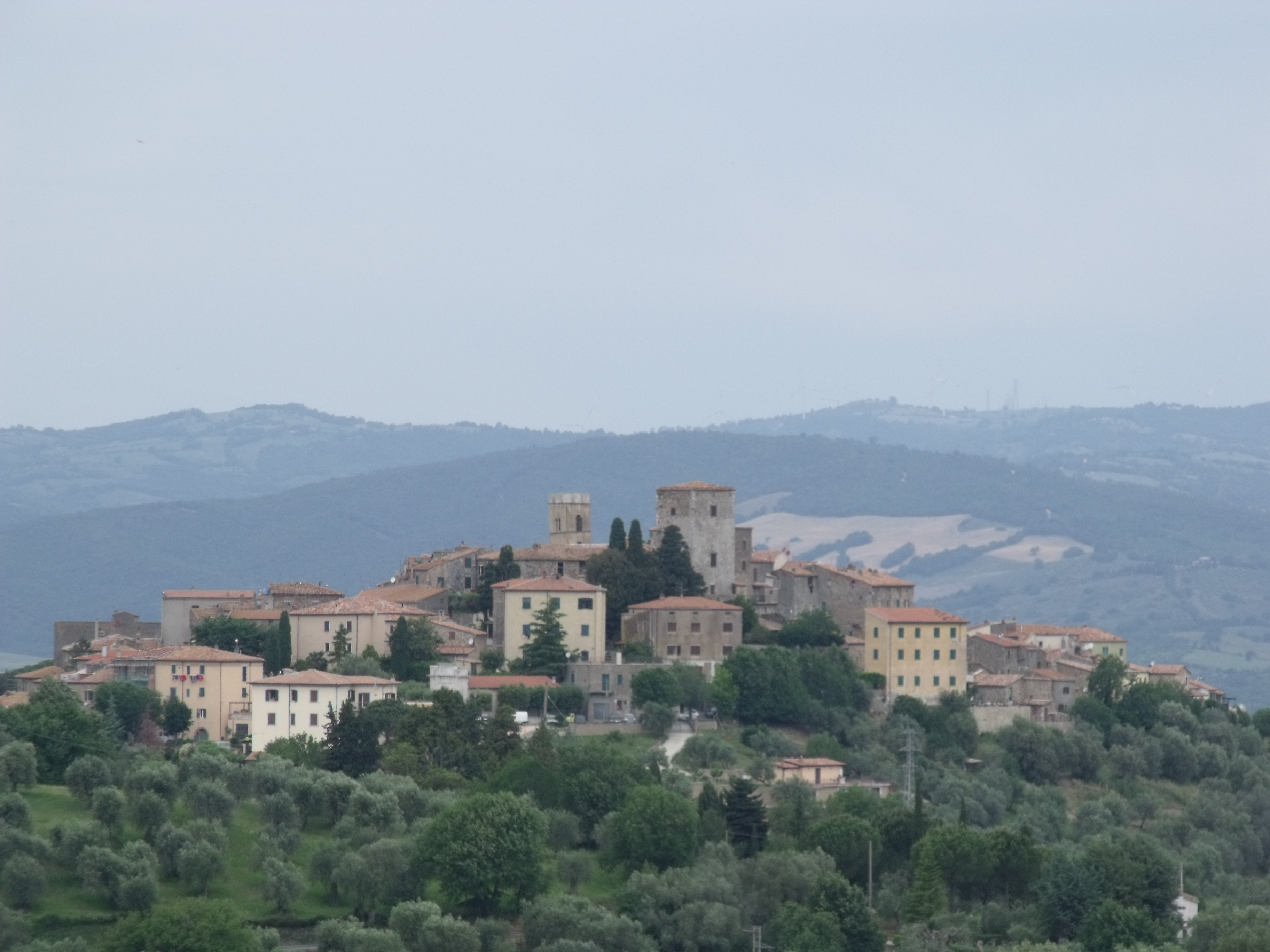 Panorama of Montemerano, Municipality of Manciano, Province of Grosseto, Tuscany, Italy